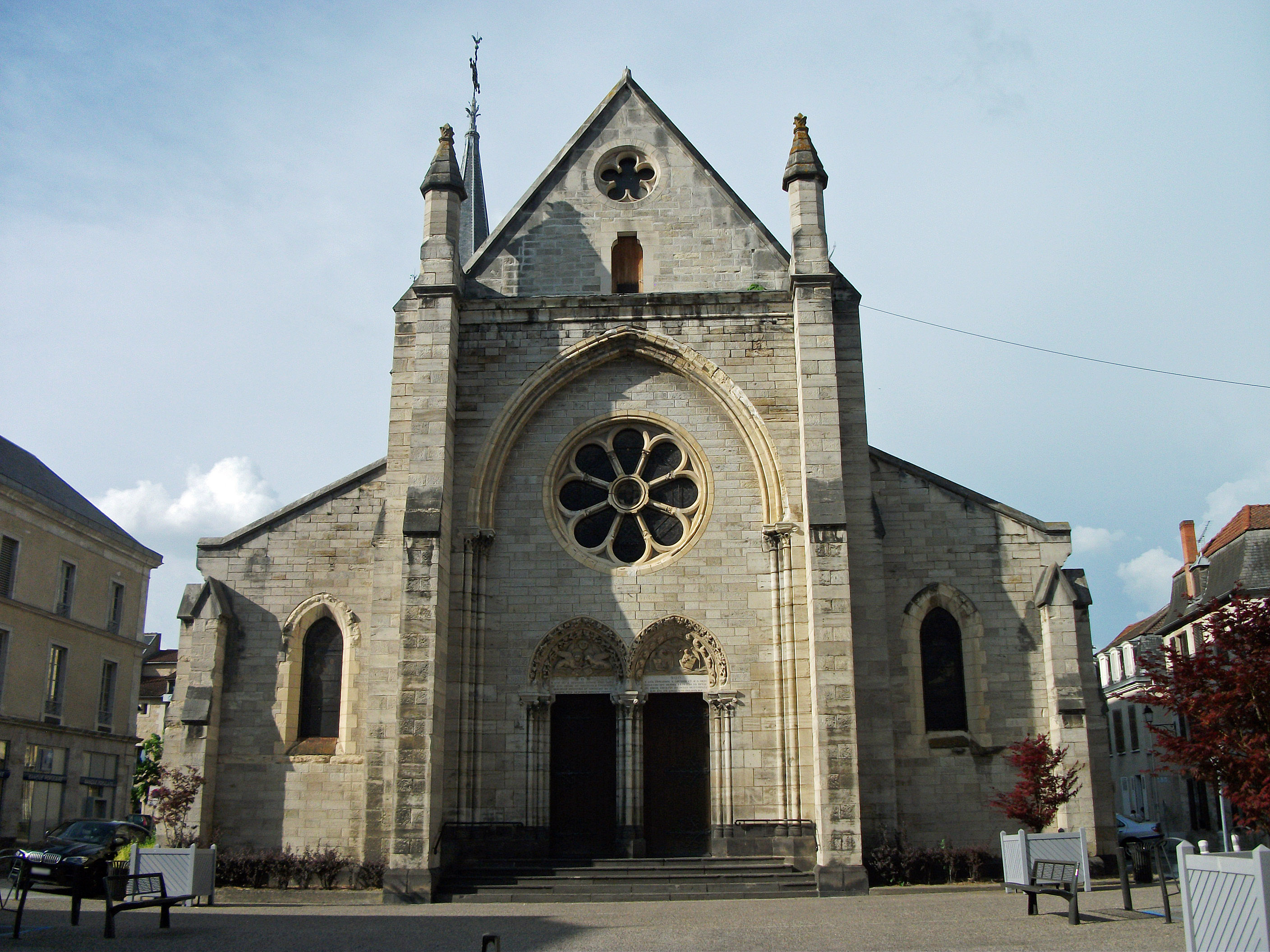 Saint-Saturnin church in Cusset from Radoult-de-Lafosse (or Radoult-de-La-Fosse) place, renovated in 2012.